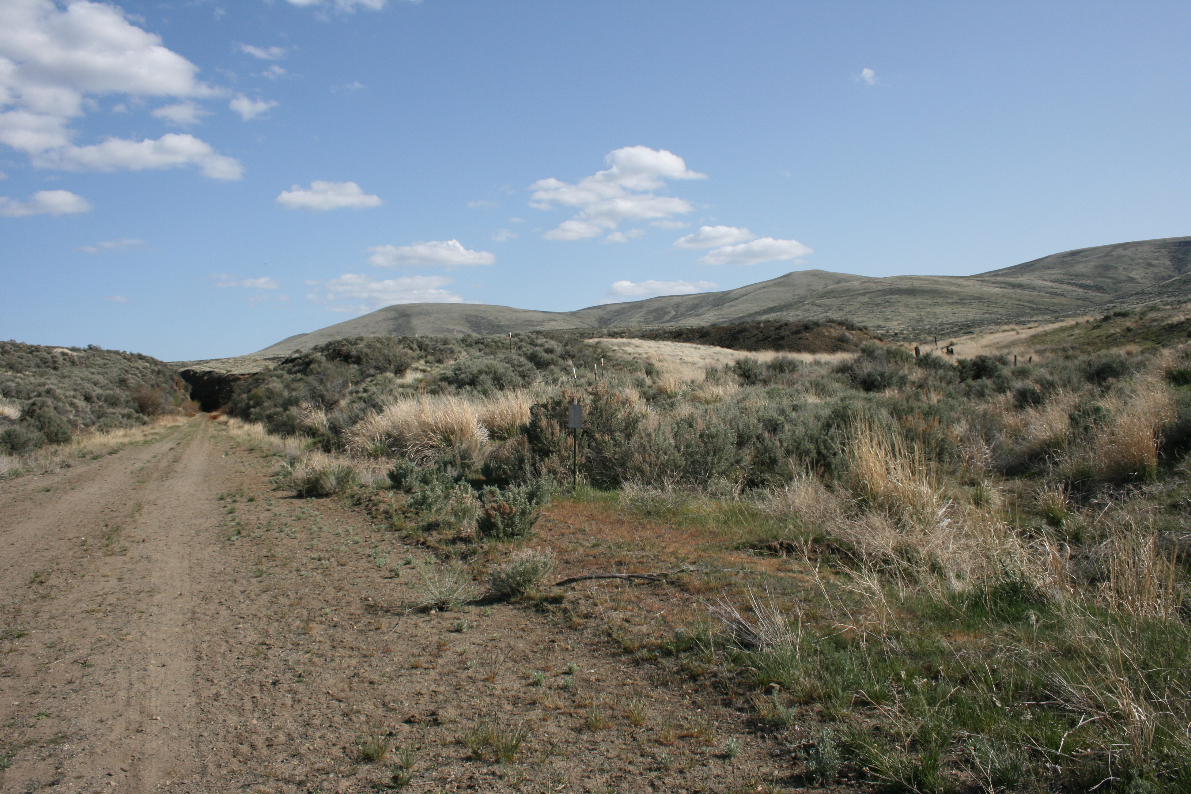 Photo taken from the John Wayne Pioneer Trail in Eastern Washington State in the United States of America. It was taken on the U.S.Army Yamika Training Center facing east and shows the western mouth of the Boylston tunnel on the former Milwaukee Road with the Saddle Mountains|Saddle Mountains to the right of the photo. It will be used in the John Wayne Trail & Saddle Mountain articles. Photo taken on May 9th and edited (size reduced) by uploader. All rights released by the uploader/author/originator into the public domain. And just to make it clear, since a recent upload was tagged & subsequently challenged by the ubiquitous, mindless bot scanning of photos. I took this photo I edited this photo I'm putting this image into the public domain. Skål - Williamborg 15:01, 10 May 2008 (UTC)